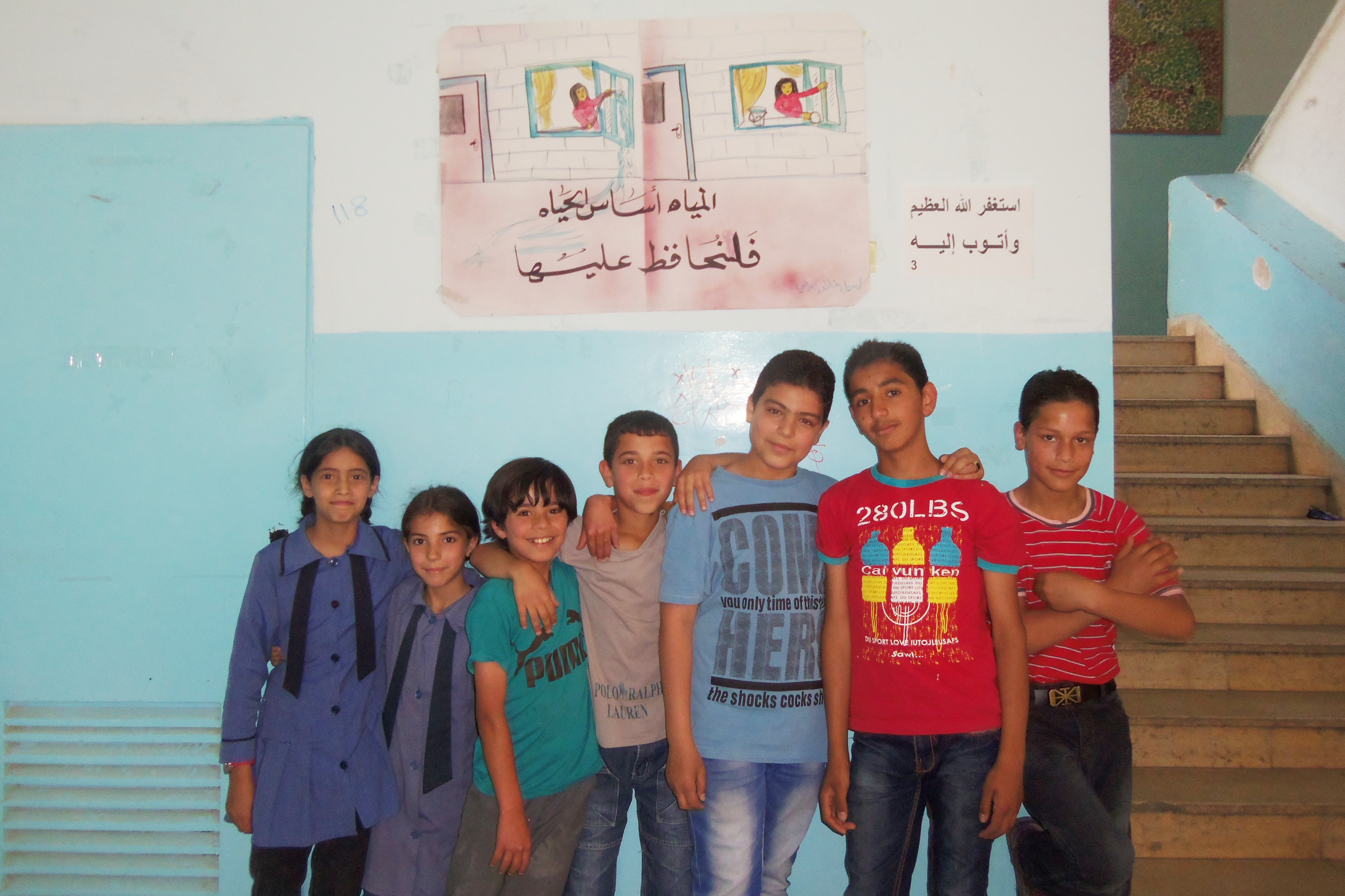 Group of school kids in front of their painting “Water is the essence of life – lets us preserve it”, Pilot school Al-Quds High School for Girls in Al Nuzha, Amman. (version 1) By GIZ Jordan